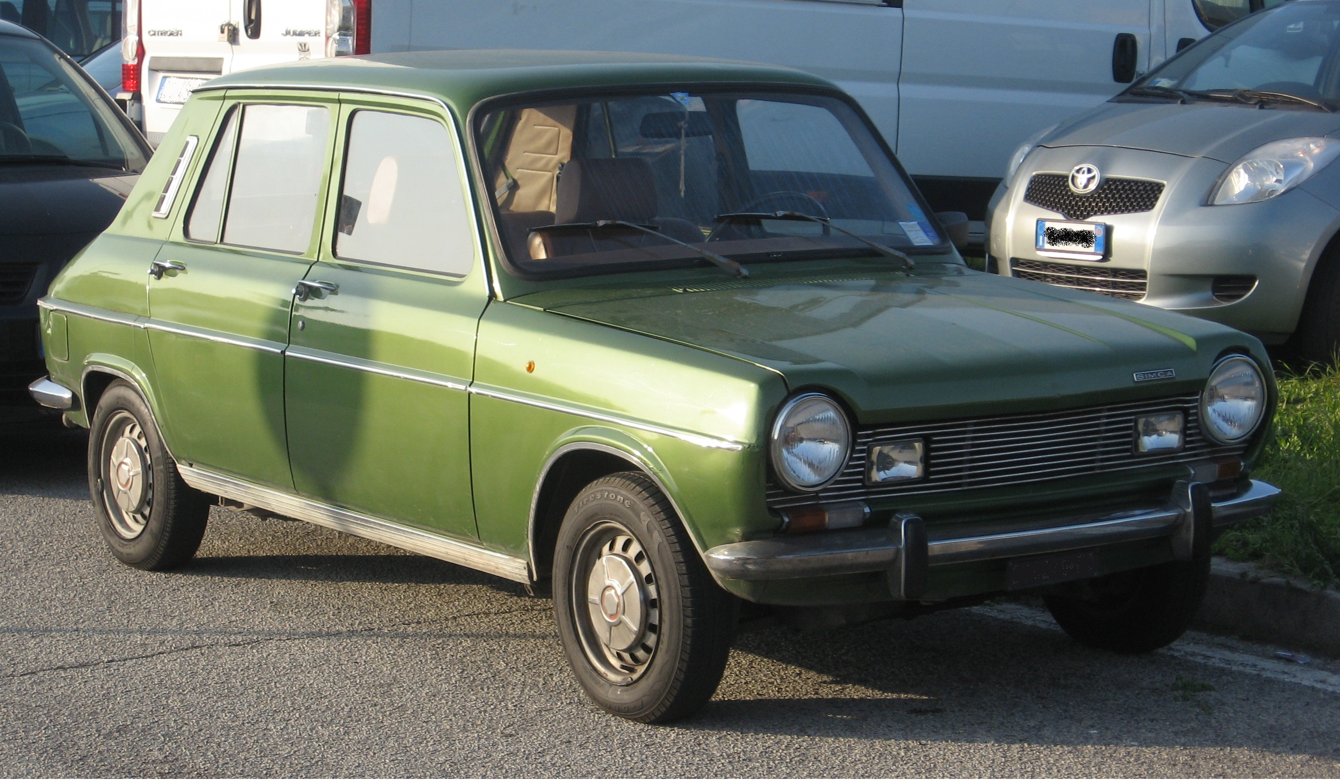 Subject: Simca 1100 TI Date:November 27th, 2011 Event: Marke Retrò 2011 Place/Country: Cesena (FC), Italy I release all rights in the public domain.